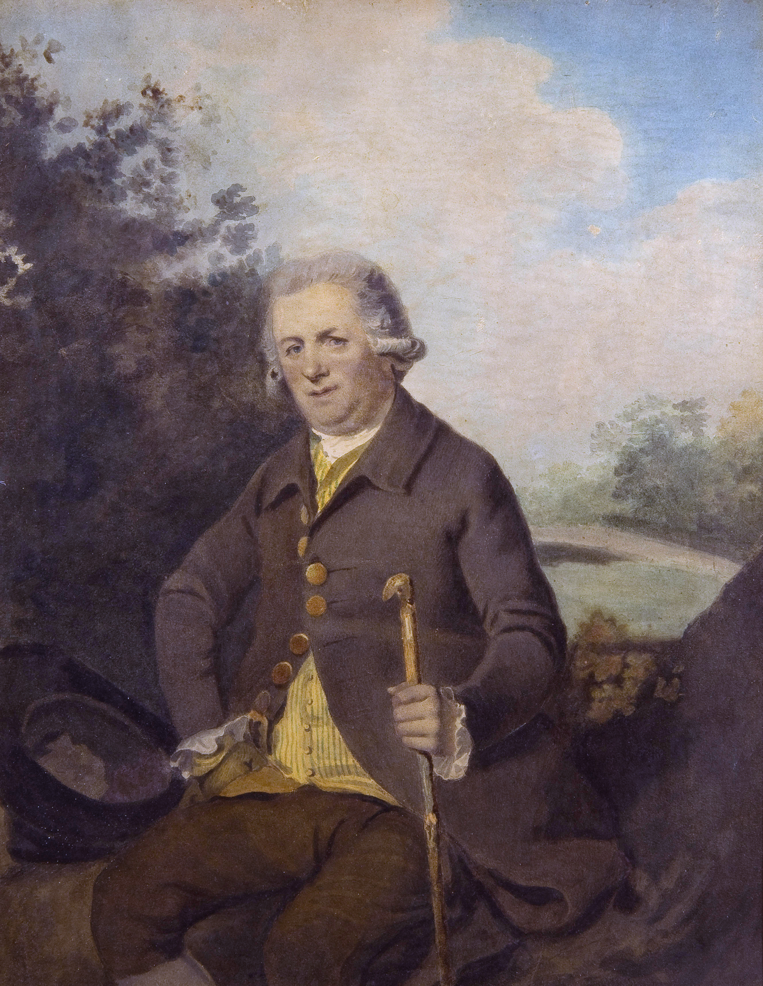 Horatio Walpole, Earl of Orford (1723-1809) watercolour and gouache 46 x 35cm